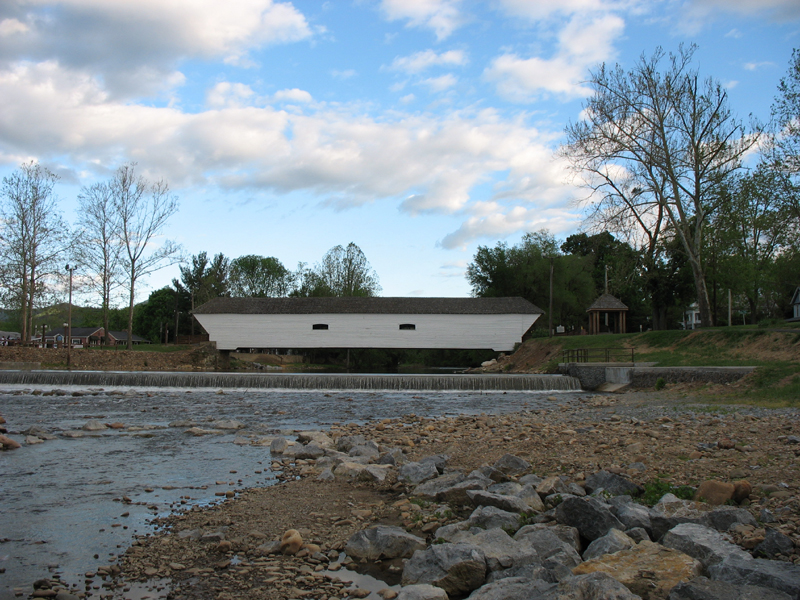 Historic Elizabethton, Tennessee covered bridge, built in 1882, stretches 134 feet across the Doe River.